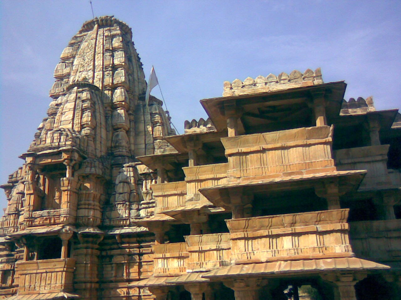 Jaisingh Rathore